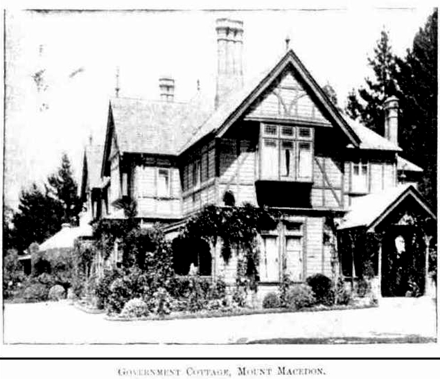 Photograph of "Government Cottage", the summer residence of the Governor of the colony of Victoria as published by The Australasian, 18 January, 1896